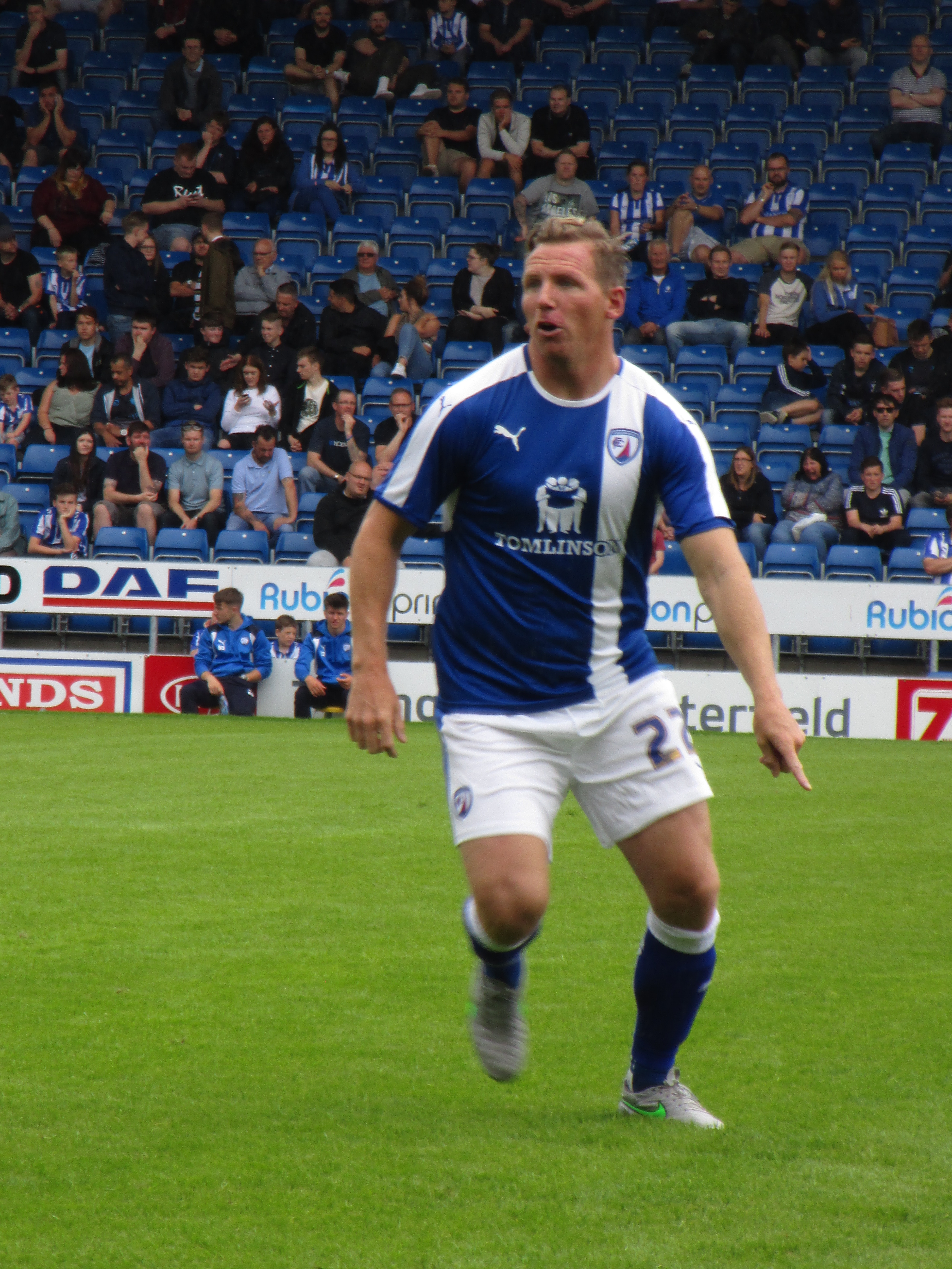 Ritchie Humphreys playing for Chesterfield FC in a pre-season friendly July 2016.